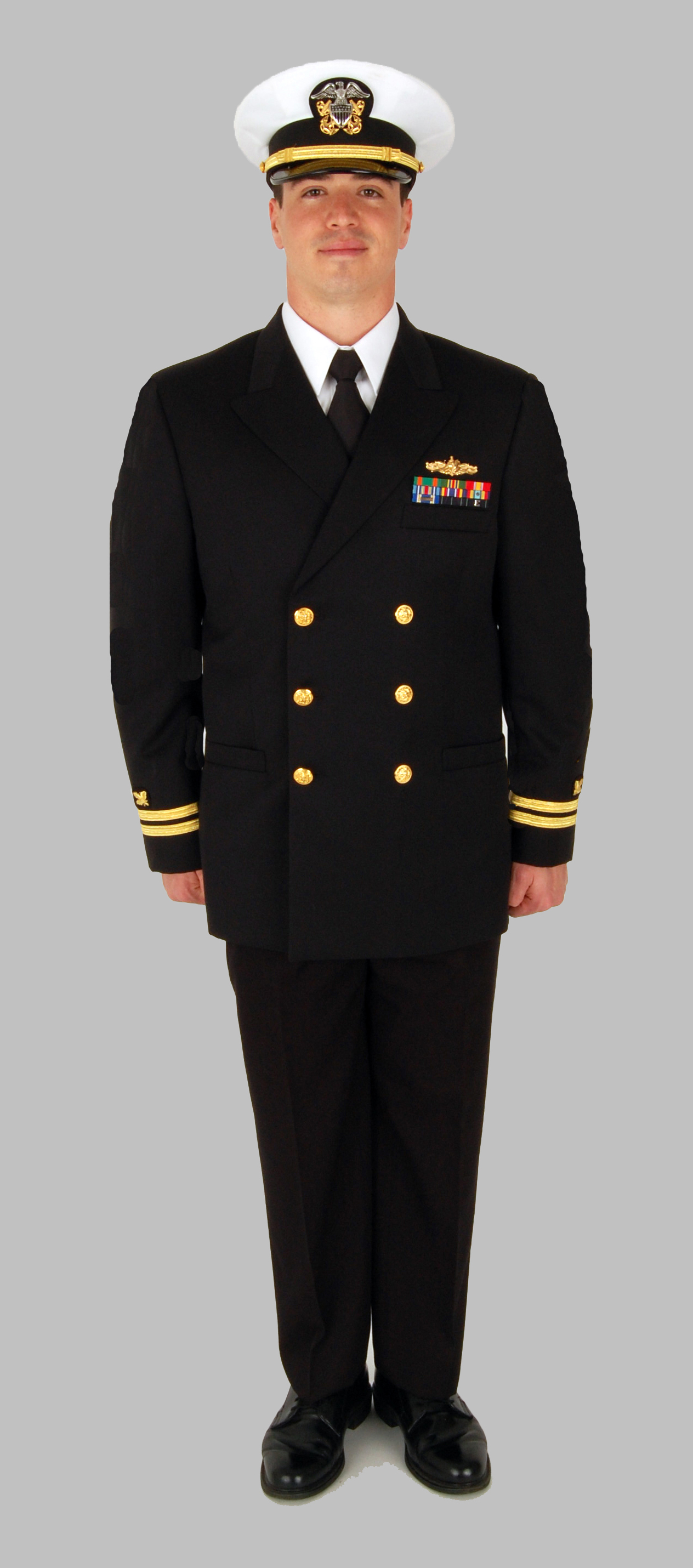 Officer Dress Blues Uniform for the US Navy